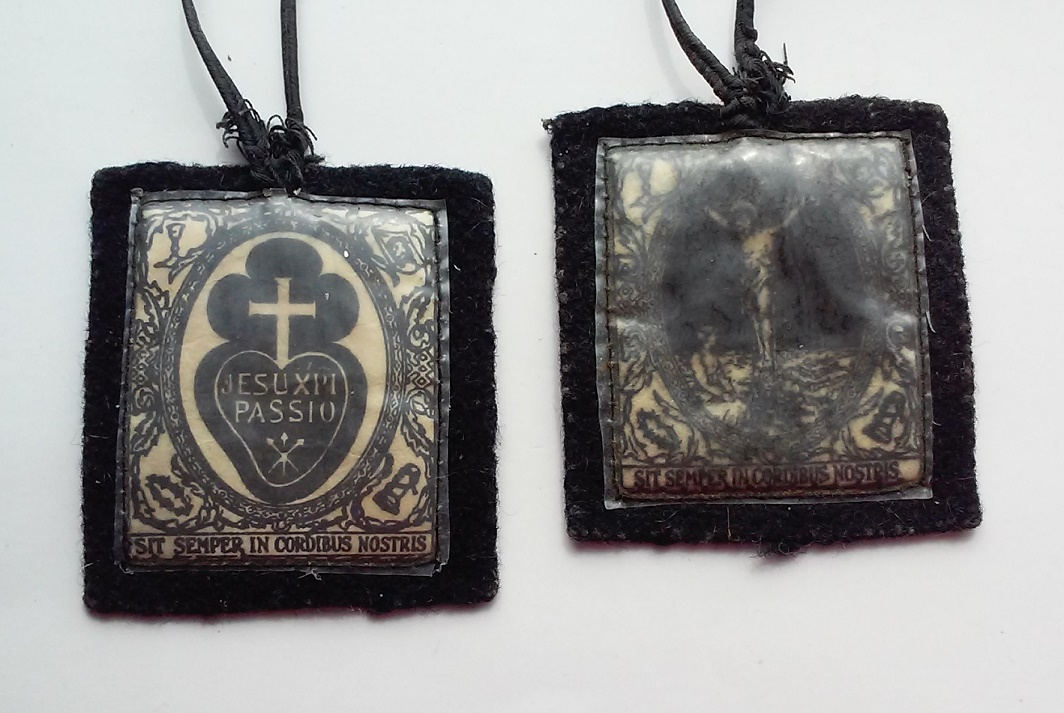 The Black Scapular of the Passion of Christ